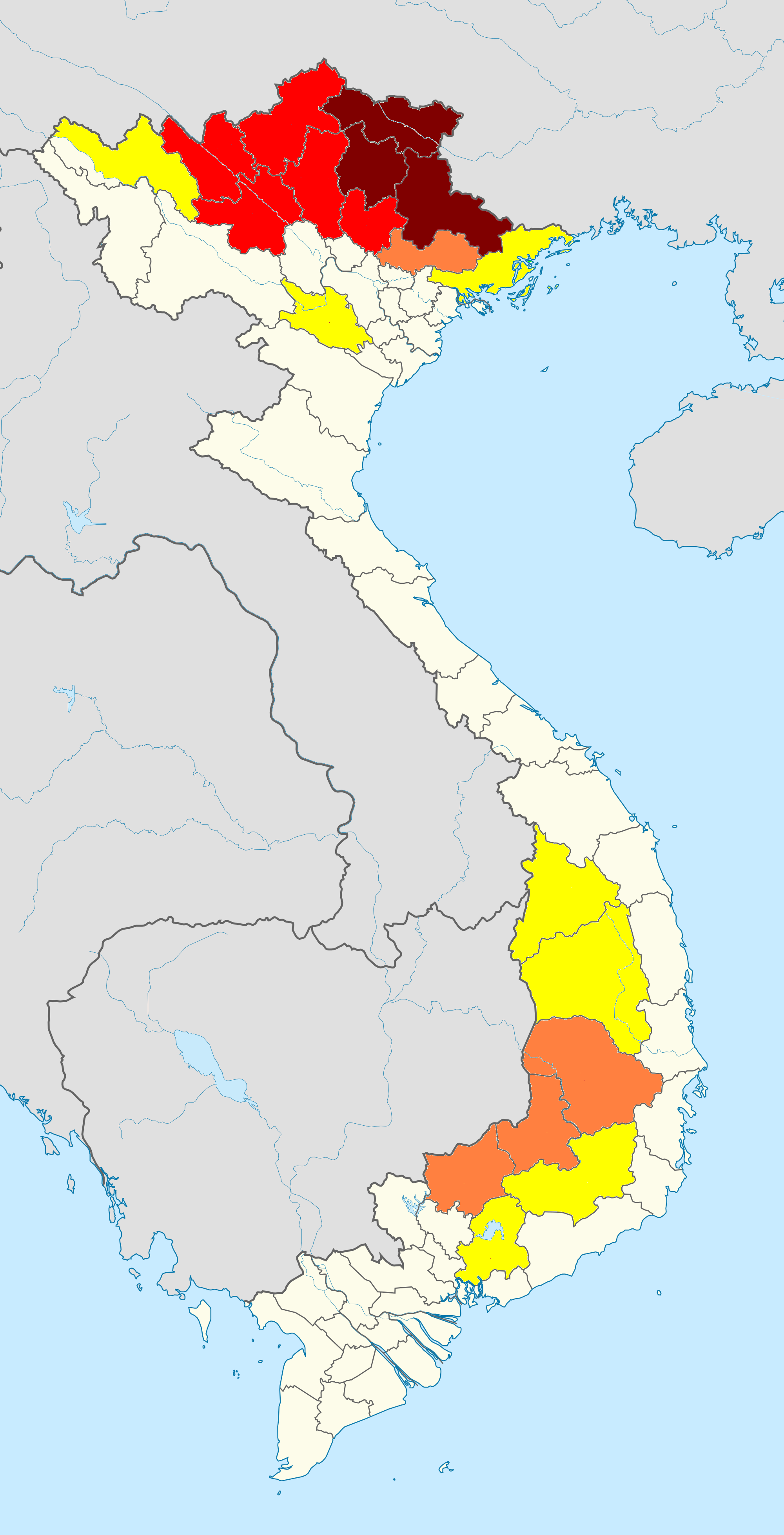 Percentage of Tay+Nung+Giay+Bo Y peoples by subdivision according to the 2009 census